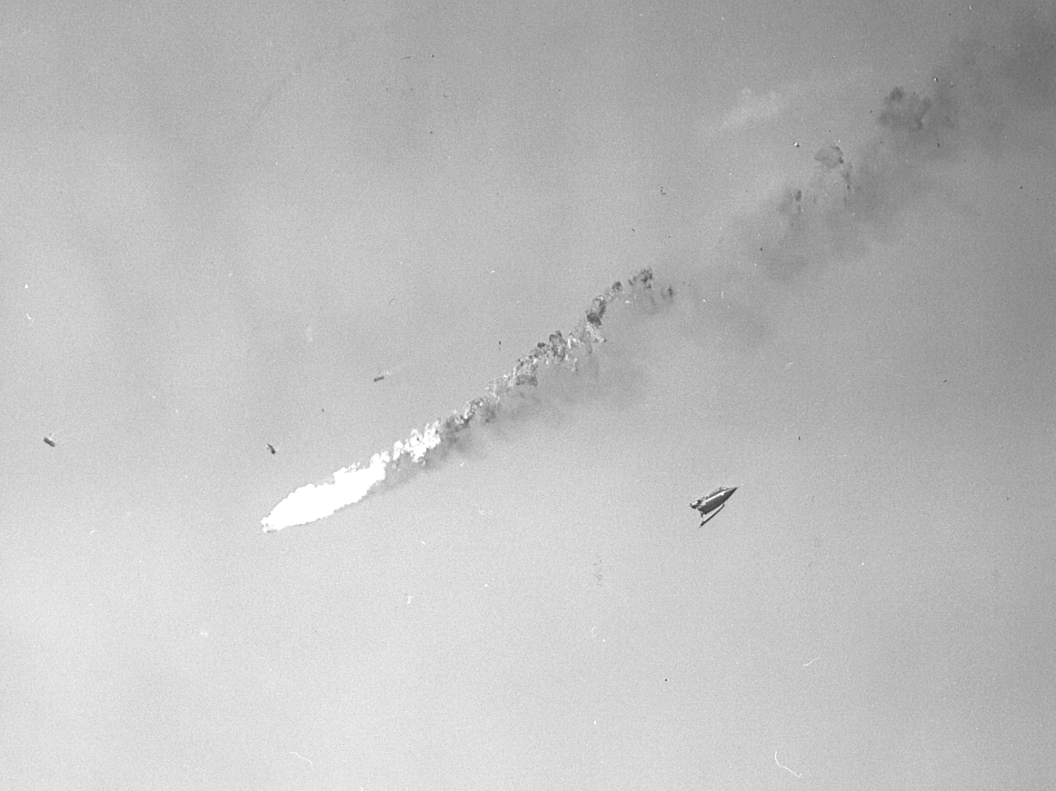 The U.S. Navy Convair XF2Y-1 Sea Dart (BuNo 135762) disintegrates in mid-air over San Diego Bay on 4 November 1954, California (USA), during a demonstration for Navy officials and the press, killing Convair test pilot Charles E. Richbourg when he inadvertently exceeded the airframe limitations.